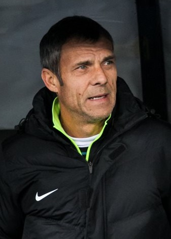 Goran Pandurović in December 2017